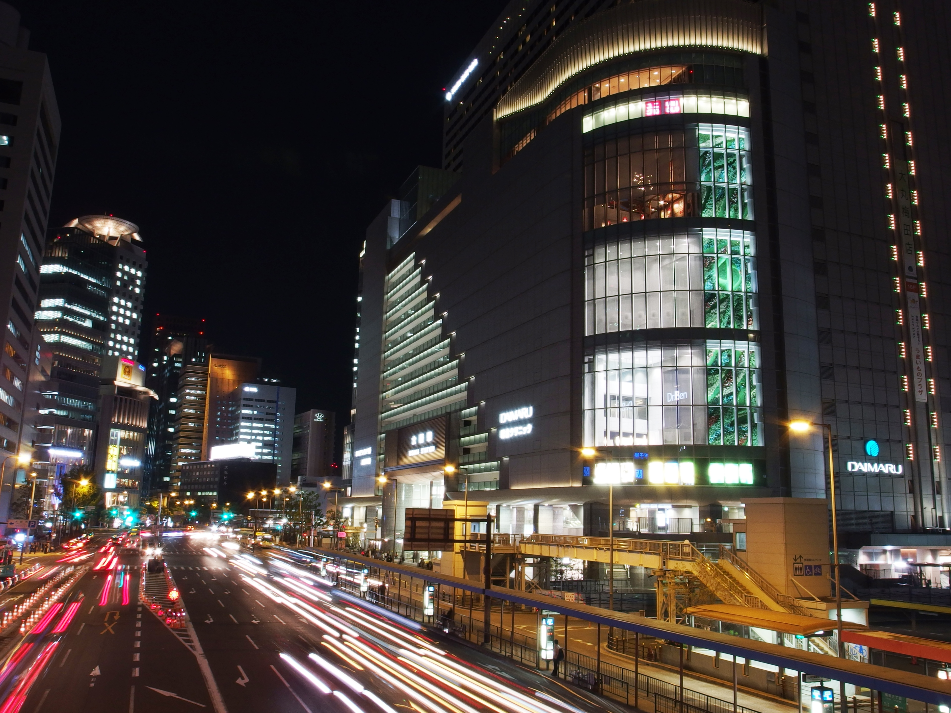 Osaka Station in Osaka, Osaka Prefecture, Japan